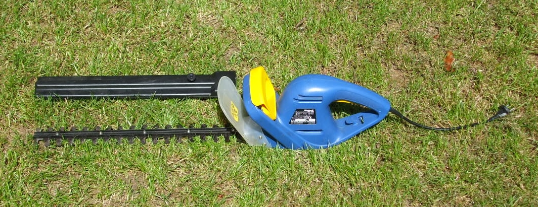 Electrical hedge trimmer (plus protection cover)